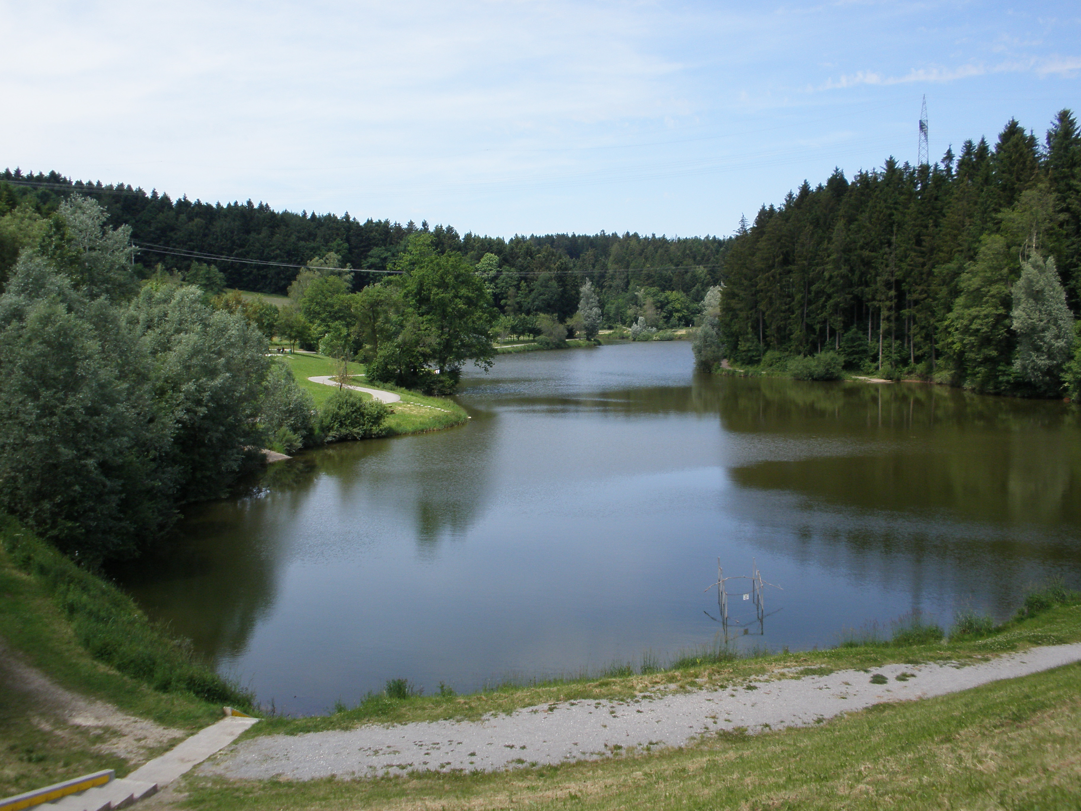 Flood retention basins Leineck near Alfdorf